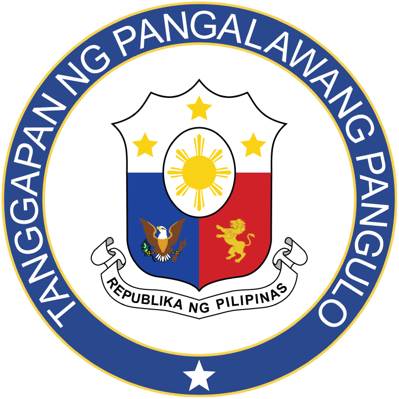 Seal of the Office of the Vice President (Philippines)